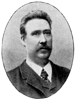 Image scanned from the book "Svenskt Porträttgalleri XX - Arkitekter, Bildhuggare, Målare m.fl. " ("Swedish Portrait Gallery XX - Architects, Sculptors, Painters, ") published 1901